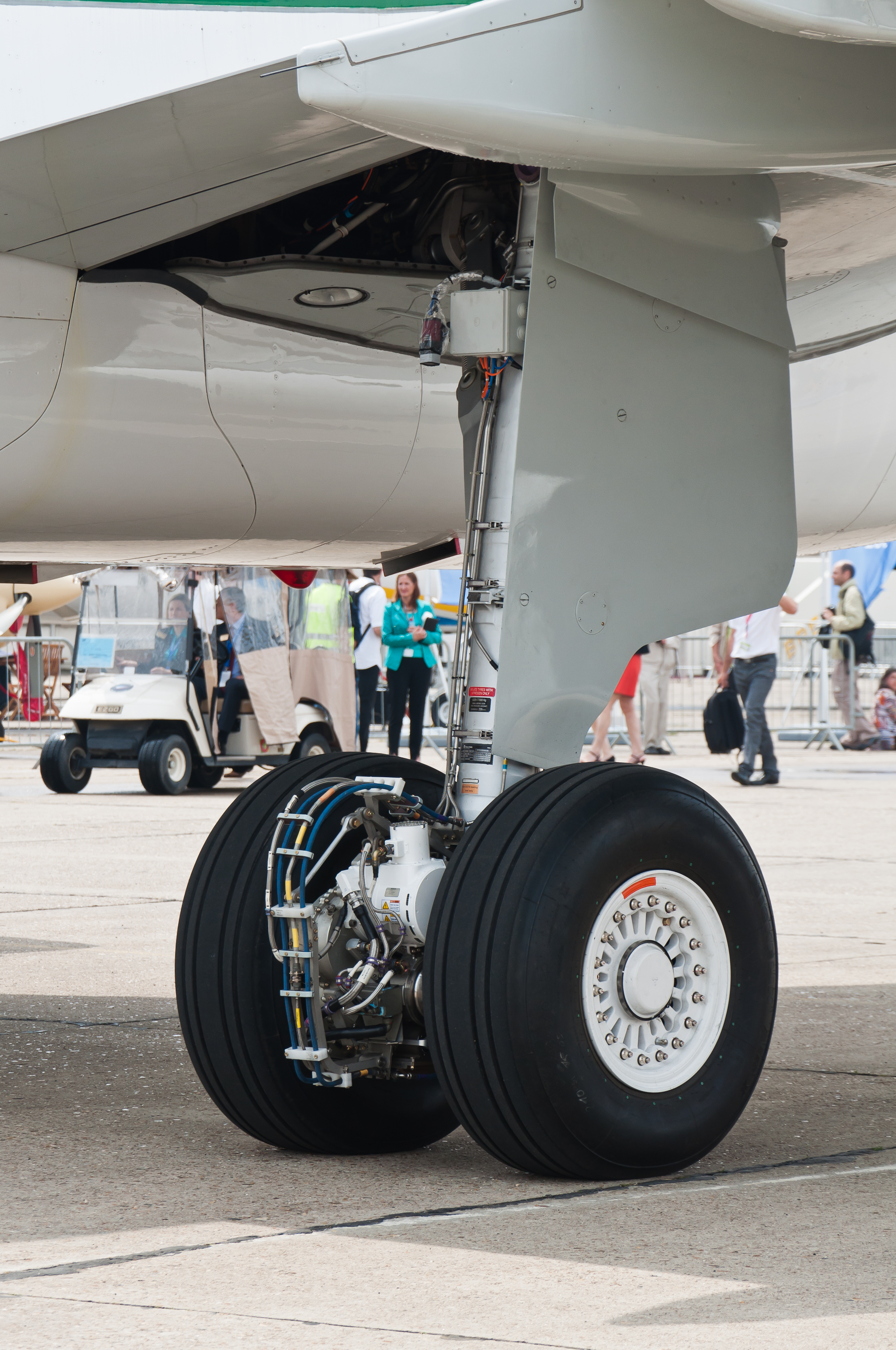 "Electric Green Taxiing System" demonstrator aircraft; EGTS International (Safran/Honeywell) Airbus A320-212 (reg. F-HGNT, c/n 234) at Paris Air Show 2013.